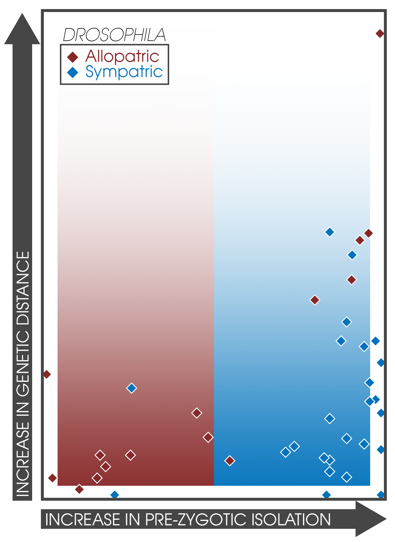 Allopatric (red) and sympatric (blue) Drosophila species pairs plotted against level of pre-zygotic isolation and genetic distance (evolutionary age). Gradients indicate the the predictions of reinforcement for allopatric and sympatric populations. Based on Coyne and Orr (1997).[1]